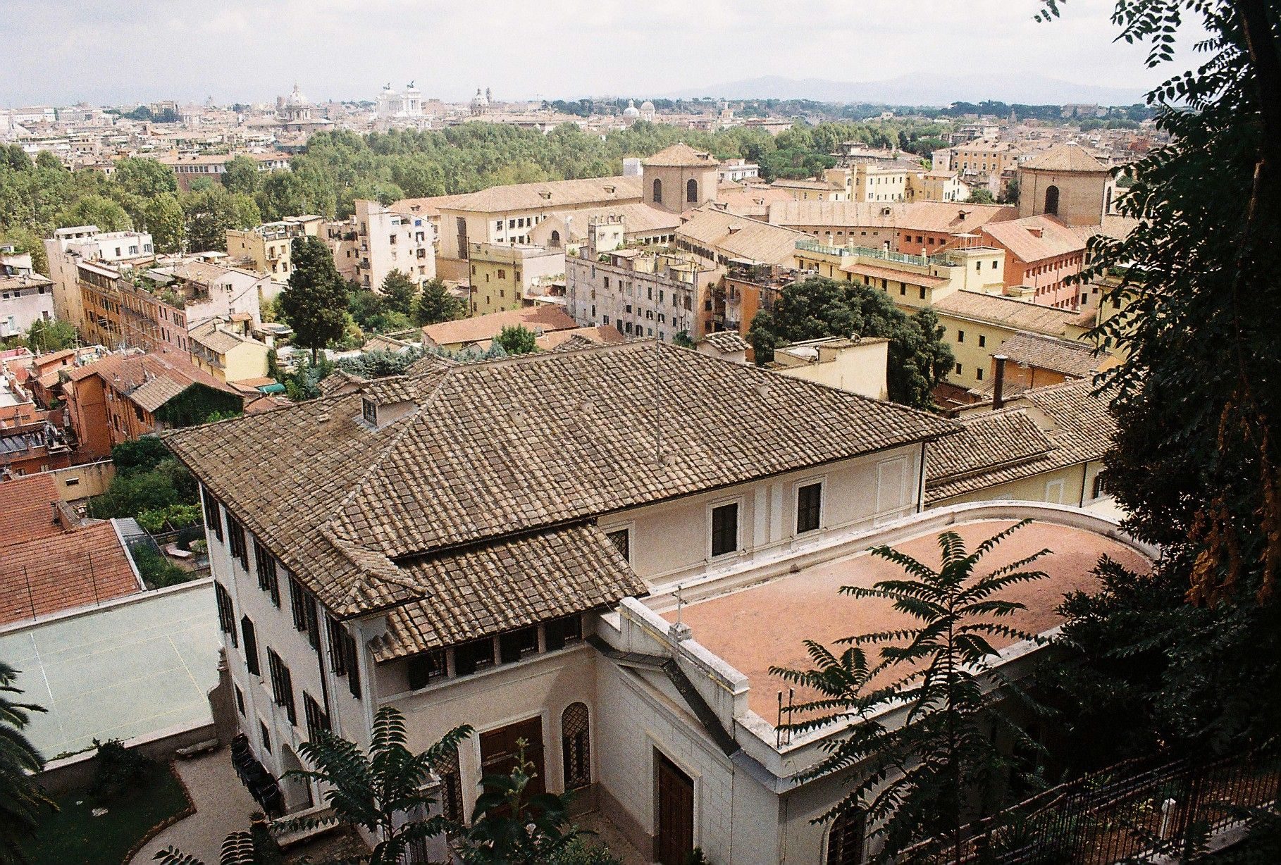 Lower part of Trastevere